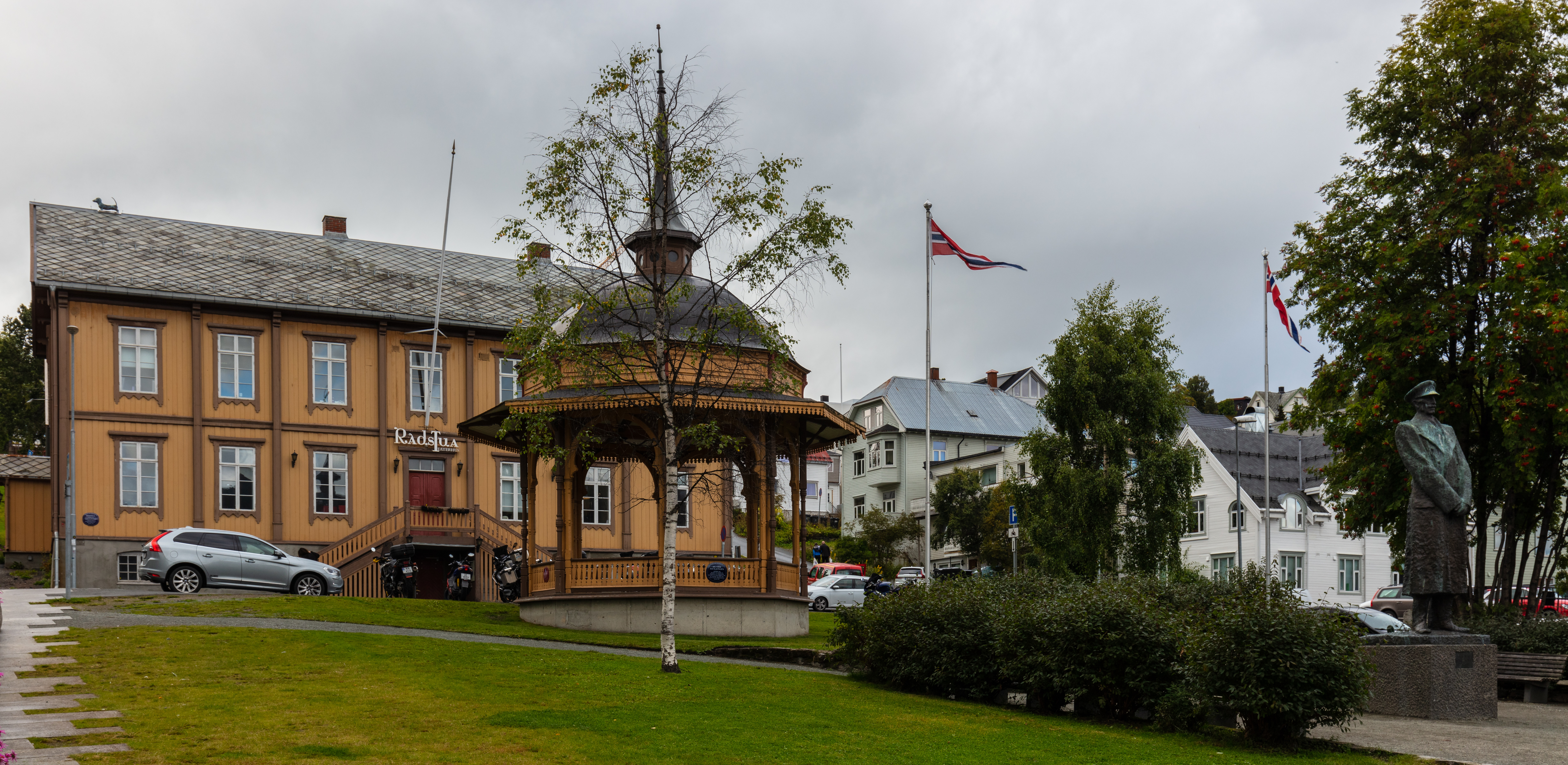 Old town hall, Tromsø, Norway